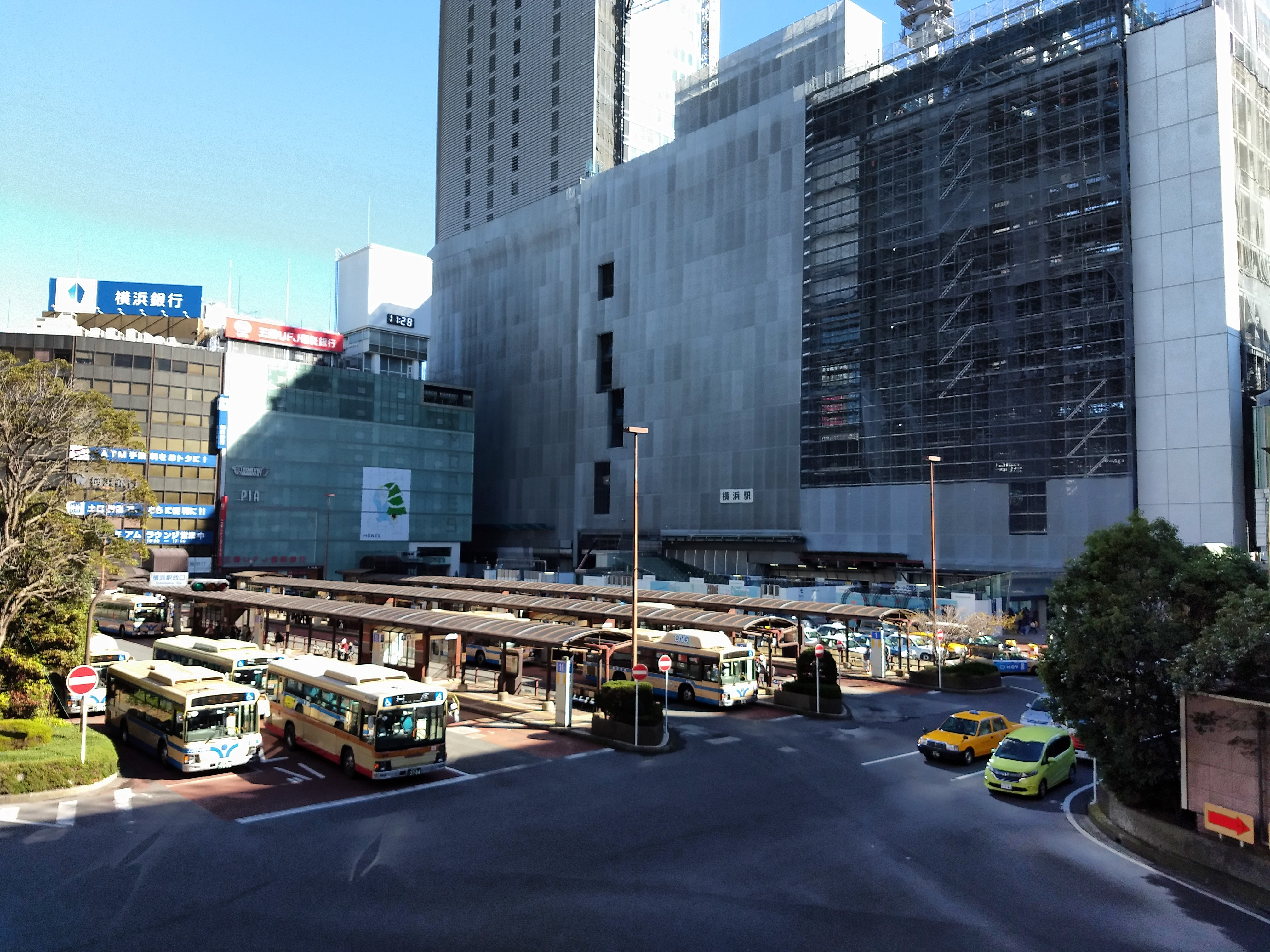 Yokohama-eki nishiguchi